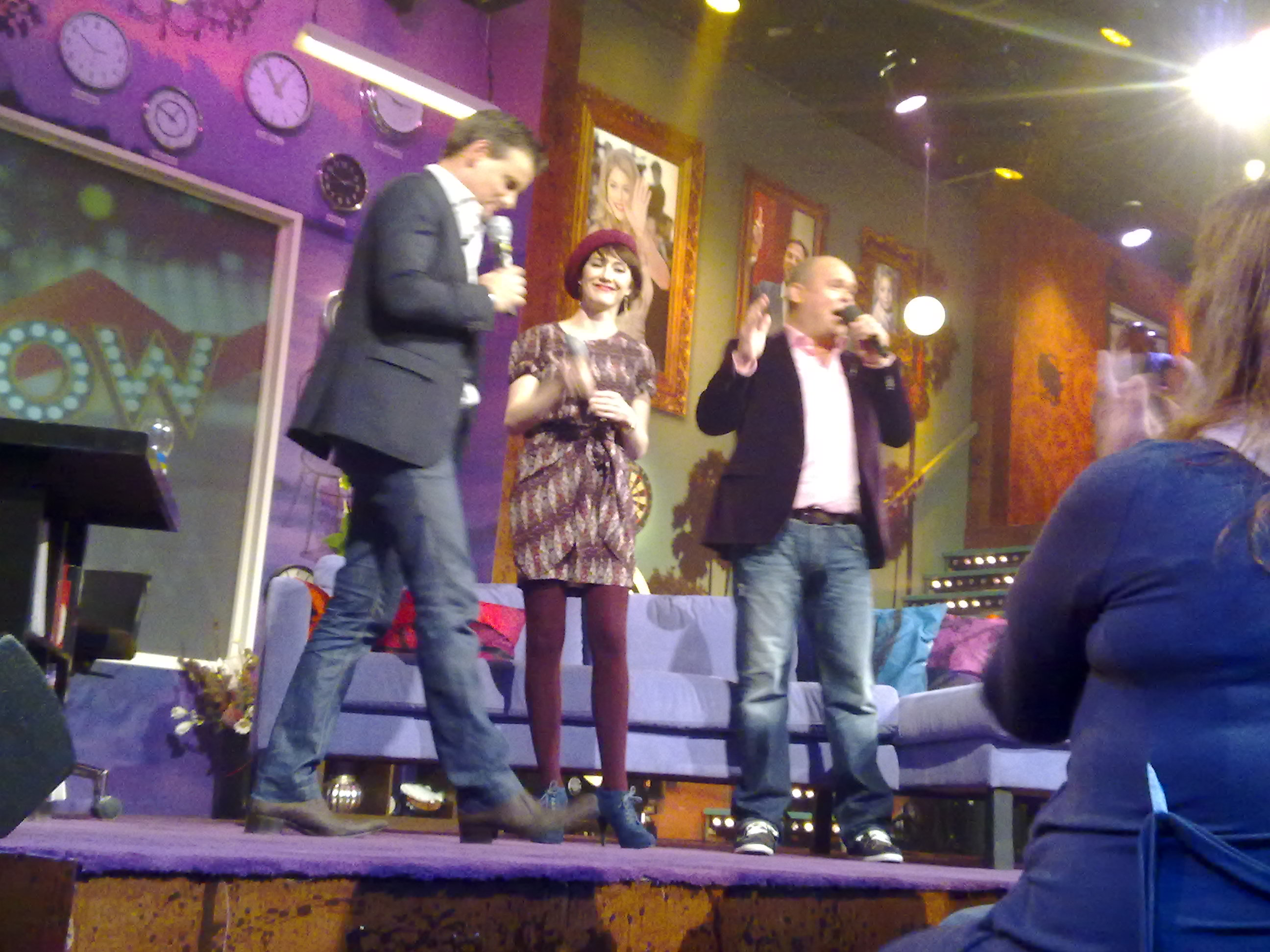 Wilfred Genee, Carice van Houten and Paul de Leeuw in the MaDiWoDoVrijdagShow.